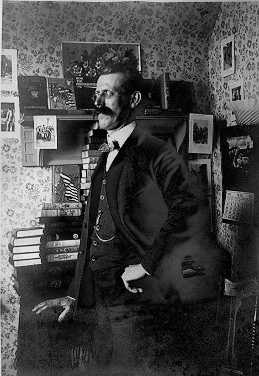 Portrait of Edward Stratemeyer from the Stratemeyer Syndicate records, Manuscripts and Archives Division, New York Public Library, Astor, Lenox, and Tilden foundations. Information taken from Mark Connelly, The Hardy Boys Mysteries, 2008.